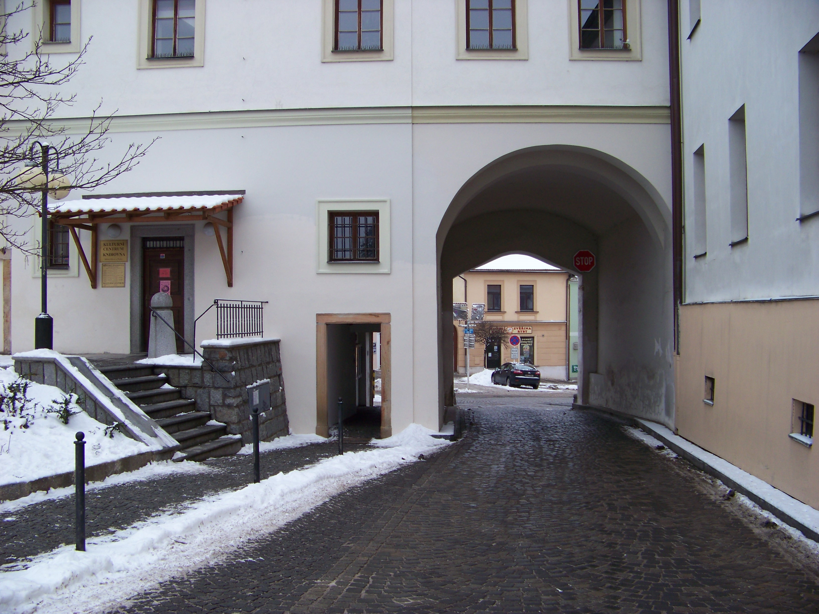 Jílové u Prahy, Prague-West District, Central Bohemian Region, Czech Republic. Šenflukova street, the town hall, a passage to Masarykovo náměstí.